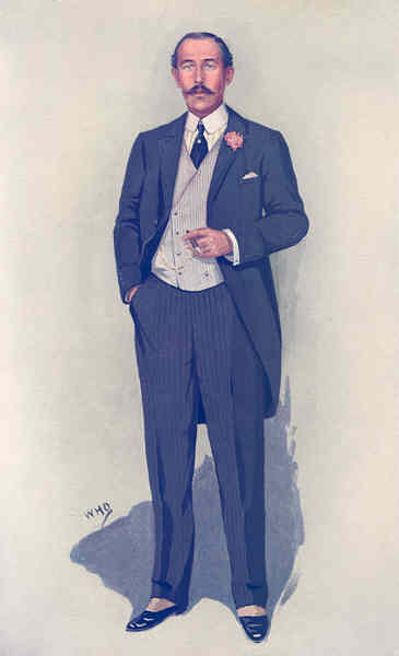 Caricature of Matthew White Ridley, 2nd Viscount Ridley. Caption read "Tariff Reform League".